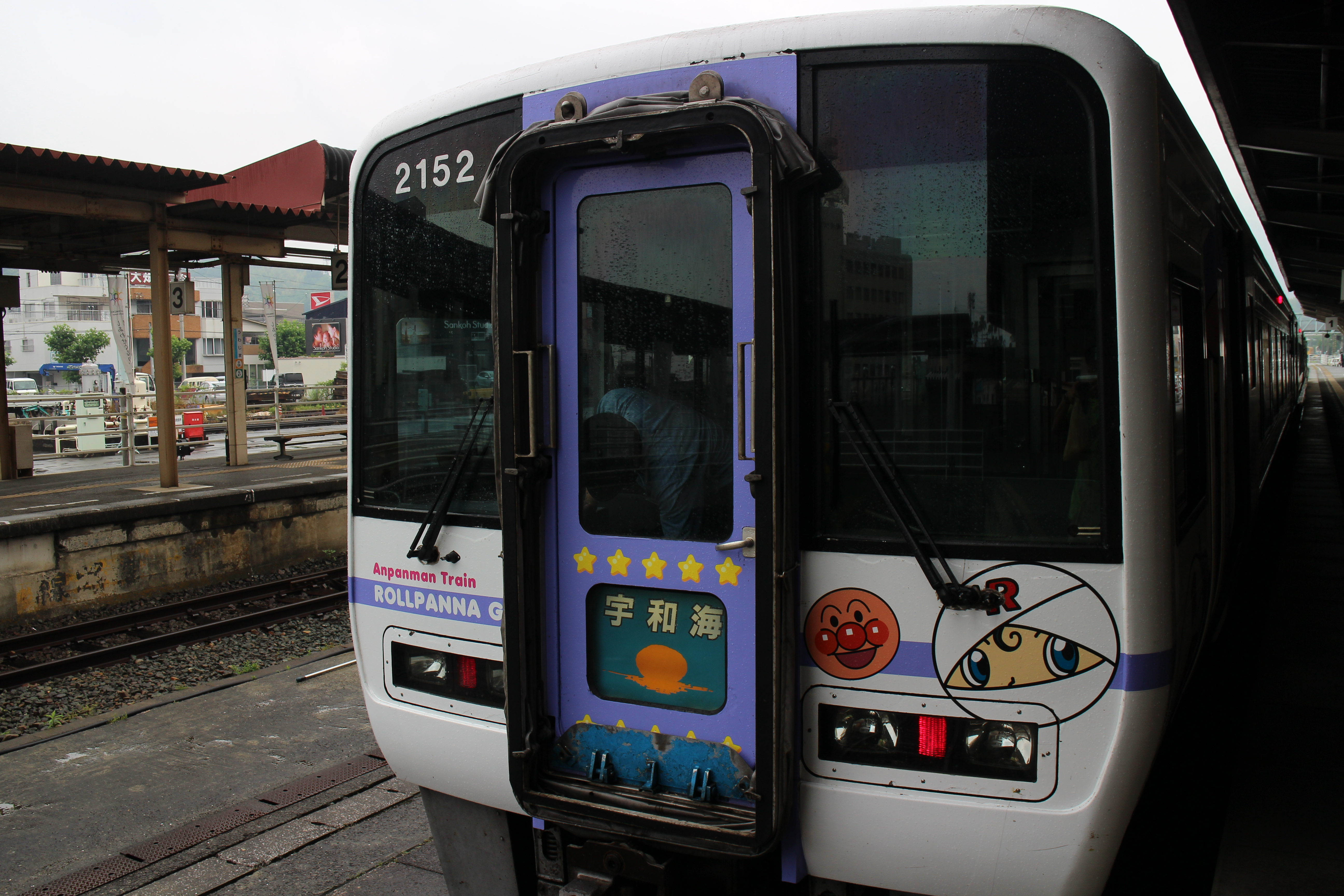 Uwakai